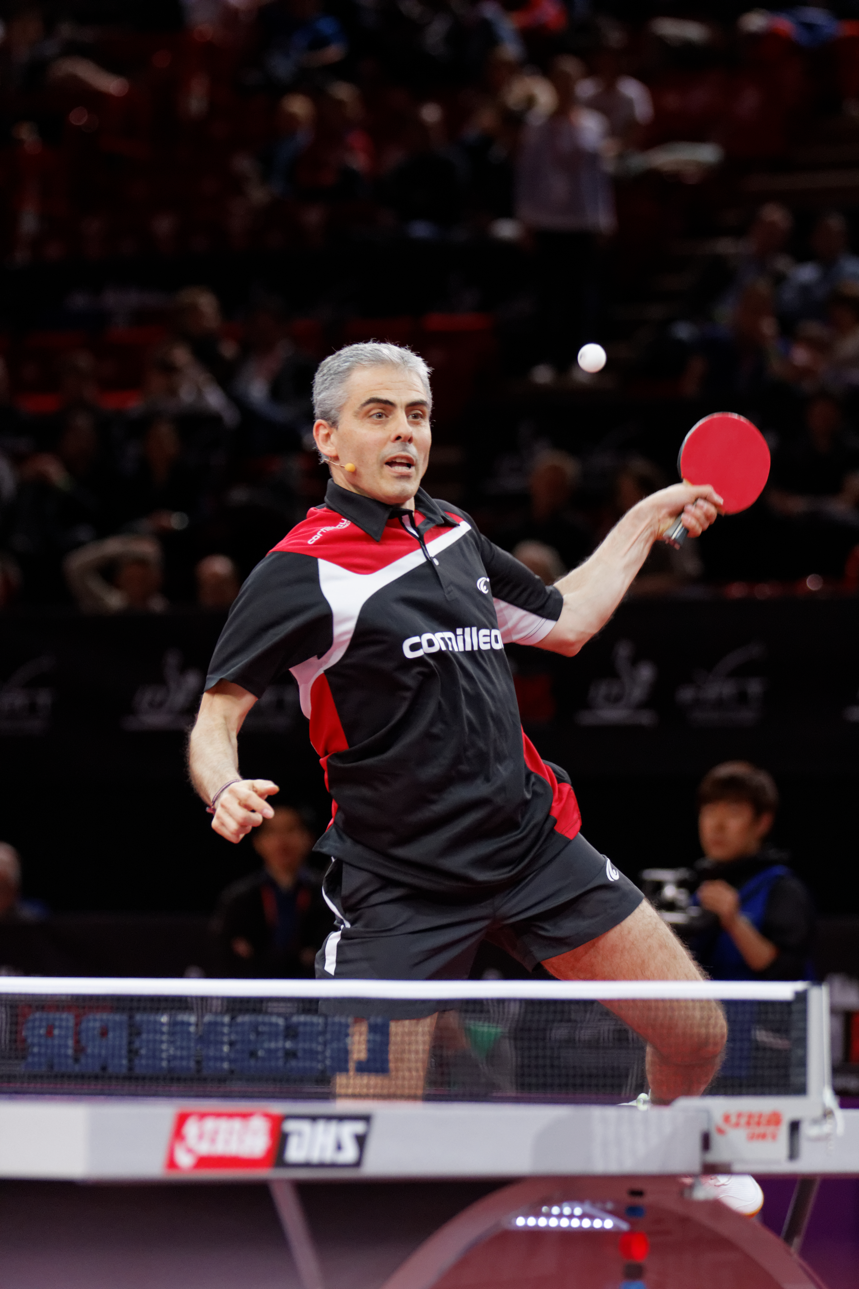 2013 World Table Tennis Championships, Paris. Jean-Michel Saive vs Jean-Philippe Gatien exhibition match.